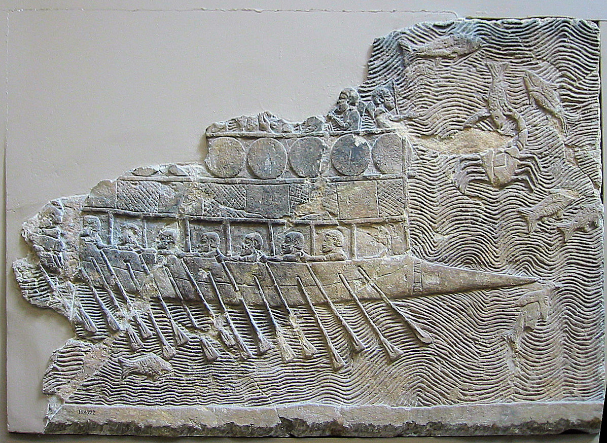 This ship was by Sennacherib. It is a bireme (dieris greek διήρης), with two levels of oars. Shields are fastened around the superstructure, as on the fortifications of some city walls. The pointed bow is a ram, for holding enemy ships" WA 124772 British Museum